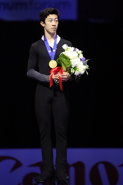 Photos – World Championships 2018 – Men (Medalists)